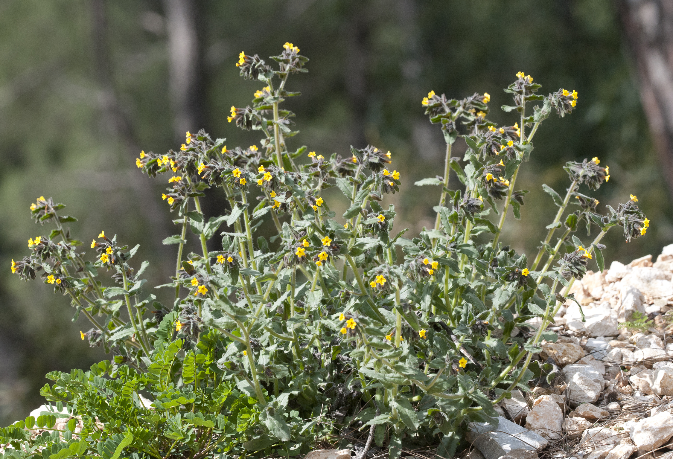 Flowers of Alkanna kotschyana. Canyon Kapıkaya, Karaisalı - Adana, Turkey.